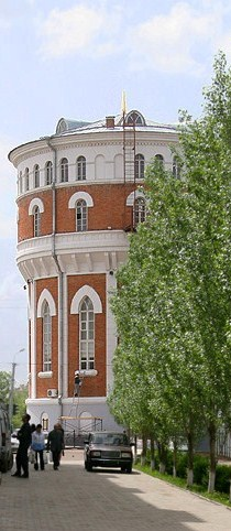 Tank tower. Orenburg.